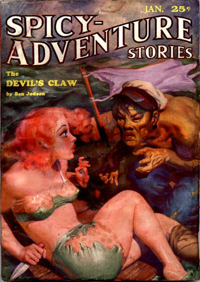 Cover of the pulp magazine Spicy-Adventure Stories (January 1935, vol. 1, no. 4) "The Devil's Claw" by Ben Judson.